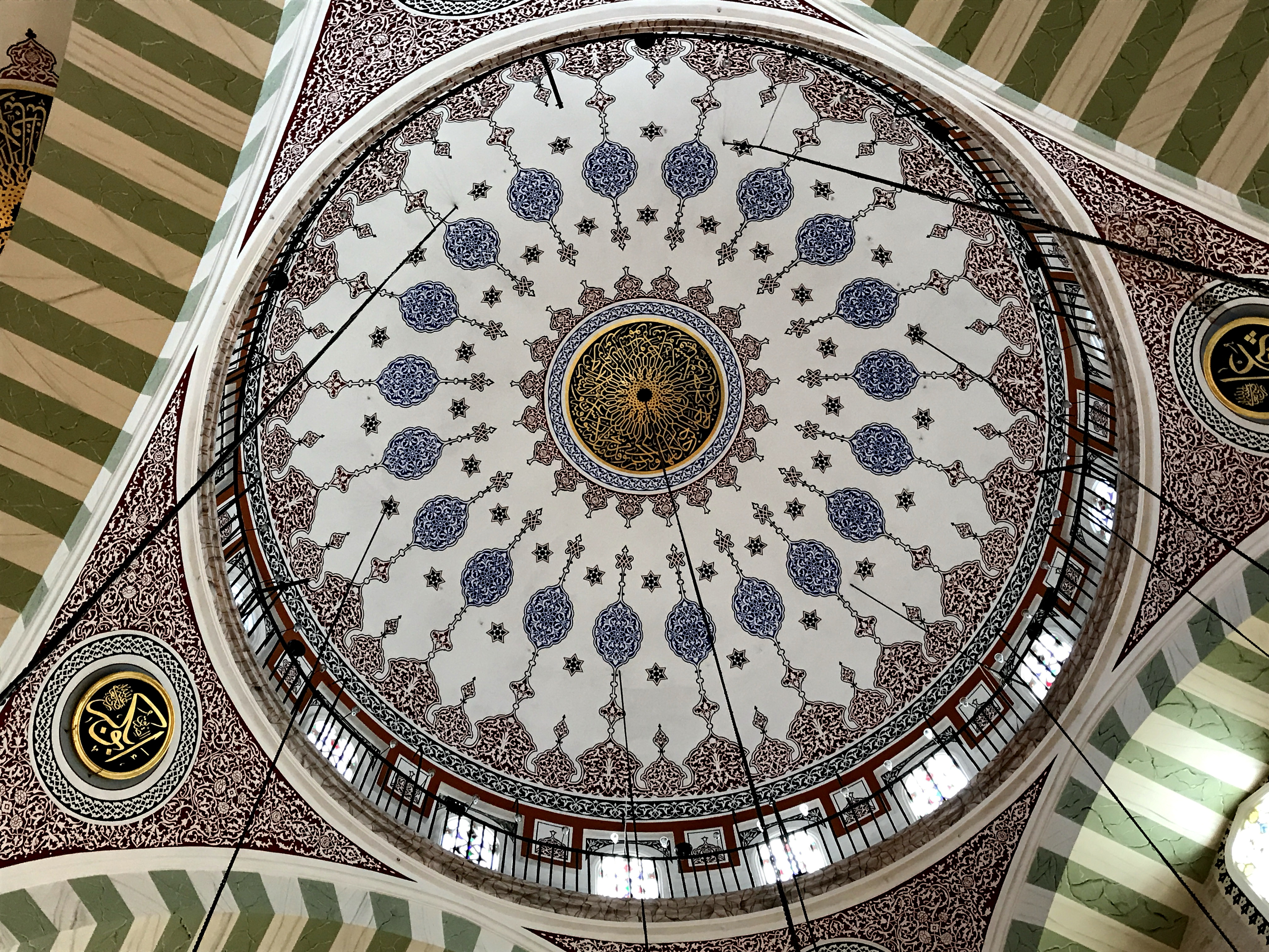 Mihrimah Sultan Mosque (built 1548), is an Ottoman mosque located in the historic center of the Üsküdar municipality in Istanbul, Turkey. It is the first of two mosques built by Mihrimah Sultan, daughter of Sultan Suleiman the Magnificent and wife of Grand Vizier Rüstem Pasha. It was designed by Mimar Sinan and built between 1546 and 1548.